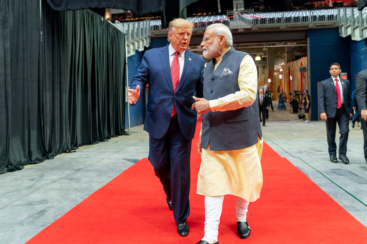 President Donald J. Trump and Prime Minister Narendra Modi of India meet backstage Sunday, Sept. 22, 2019, at a rally in honor of Prime Minister Modi at NRG Stadium in Houston, Texas. (Official White House Photo by Shealah Craighead)